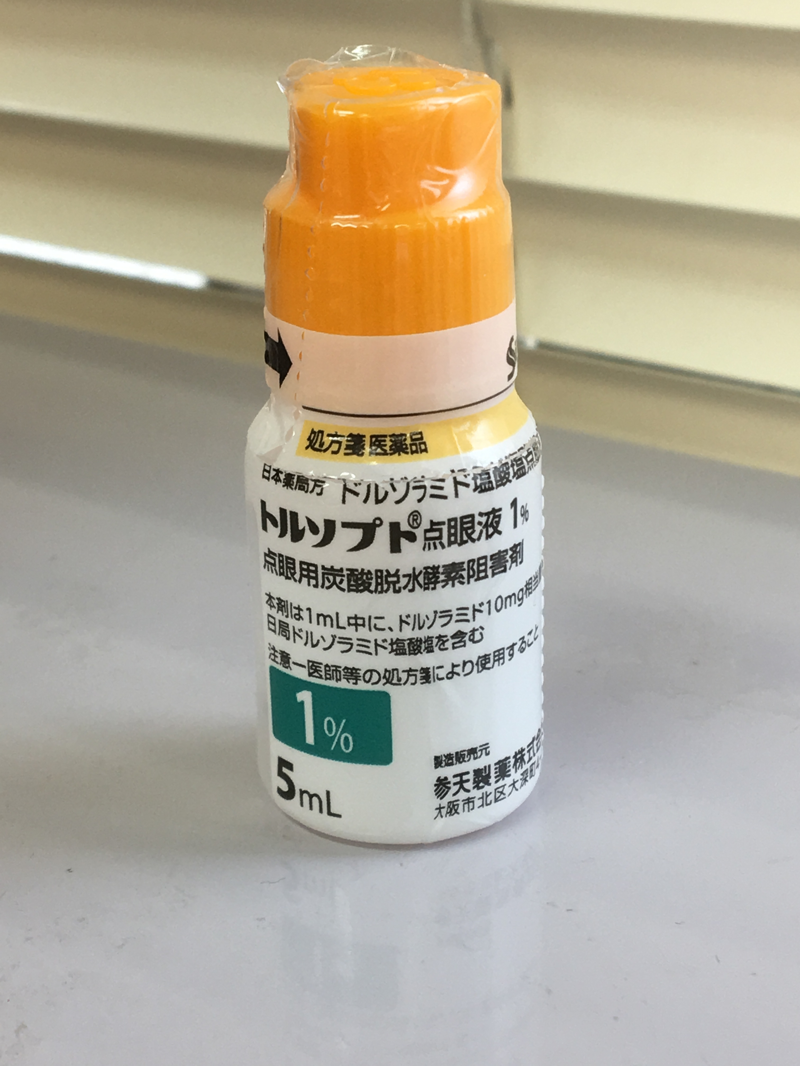 trusopt TRUSOPT® (dorzolamide hydrochloride) Ophthalmic Solution